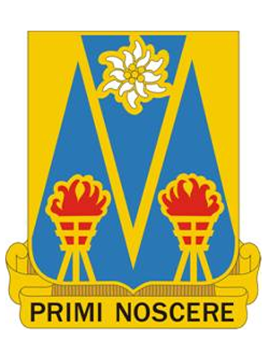 303rd Military Intelligence Battalion: Coat of Arms